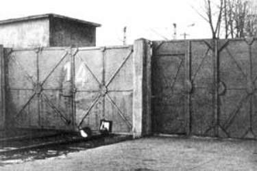 Warsaw Uprising - German Transit Camp in Pruszków (Dulag 121). Gate no. 14.